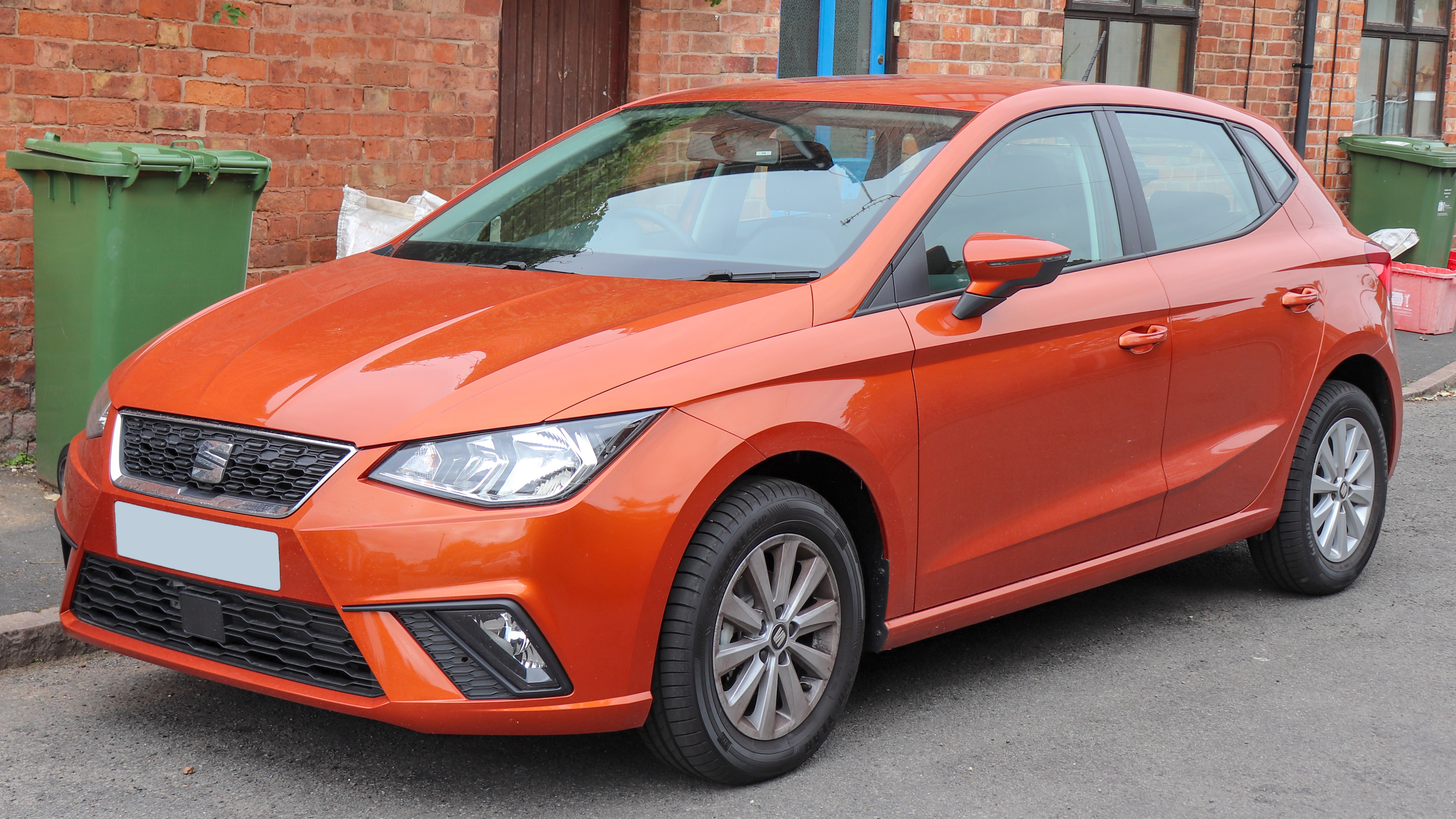 2018 SEAT Ibiza SE Technology MPi 1.0 Front Taken in Leamington Spa